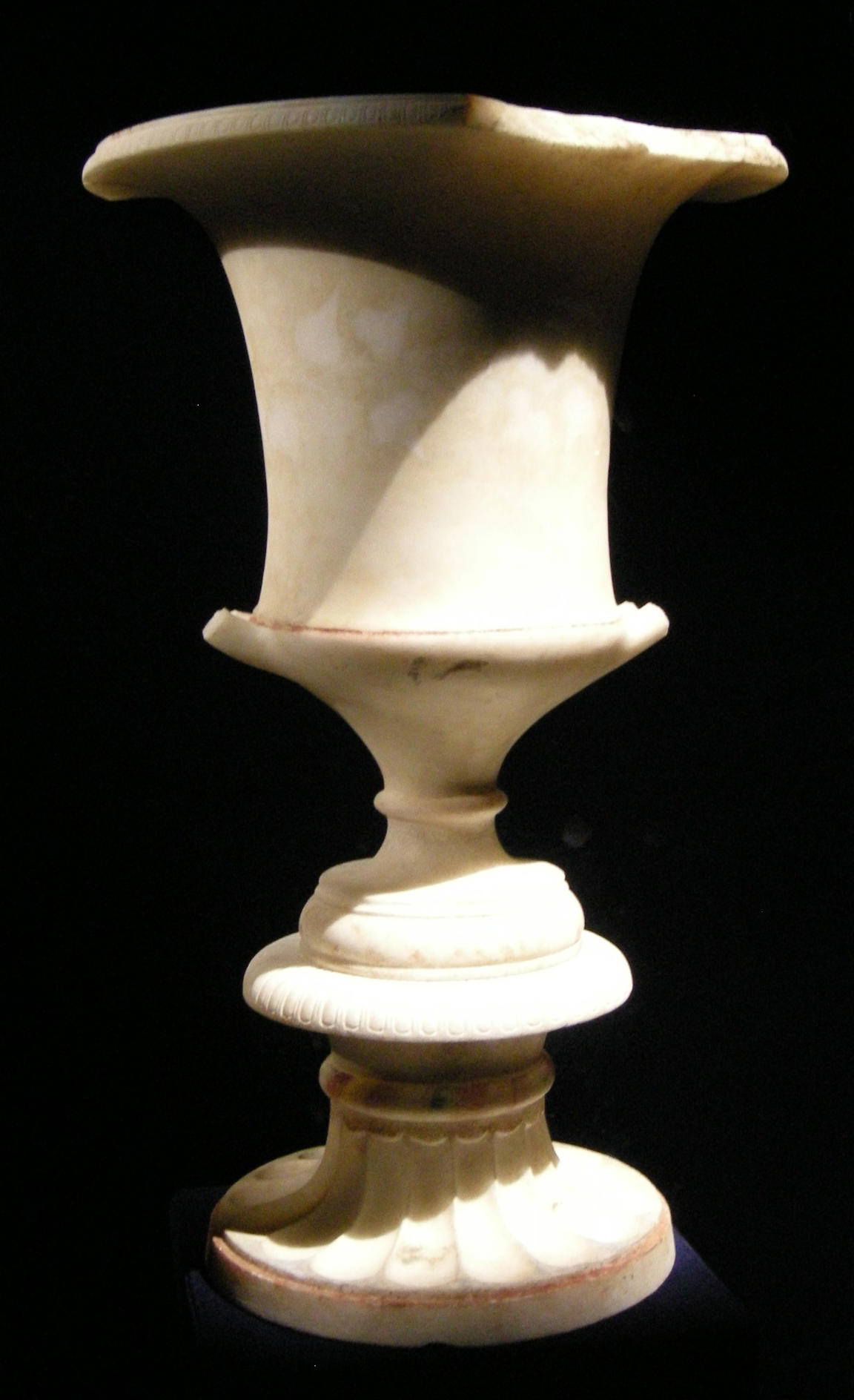 read filename please (it)